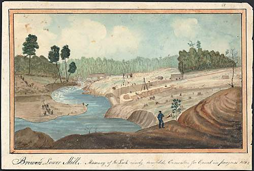 Original caption: On the left labourers excavate the channel below the lock, moving material by wheelbarrow up a "barrow run." A small coffer dam protects the bottom of the lock from the waters of the Cataraqui River. In the background is the original saw mill and mill dam, replaced that year by a canal dam which would flood the Cataraqui River, putting a navigation depth of water into the upper canal cut leading to the lock.